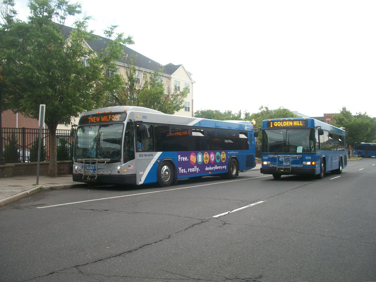 HARTransit Gillig BRT and Gillig LF in Danbury Pulse Point